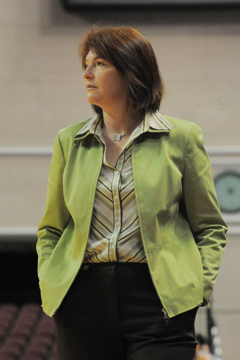 Tanya Haave of the USF Dons during USF's 73-64 loss to the USD Toreros at the Orleans Arena on March 6, 2009 in Las Vegas, Nevada.